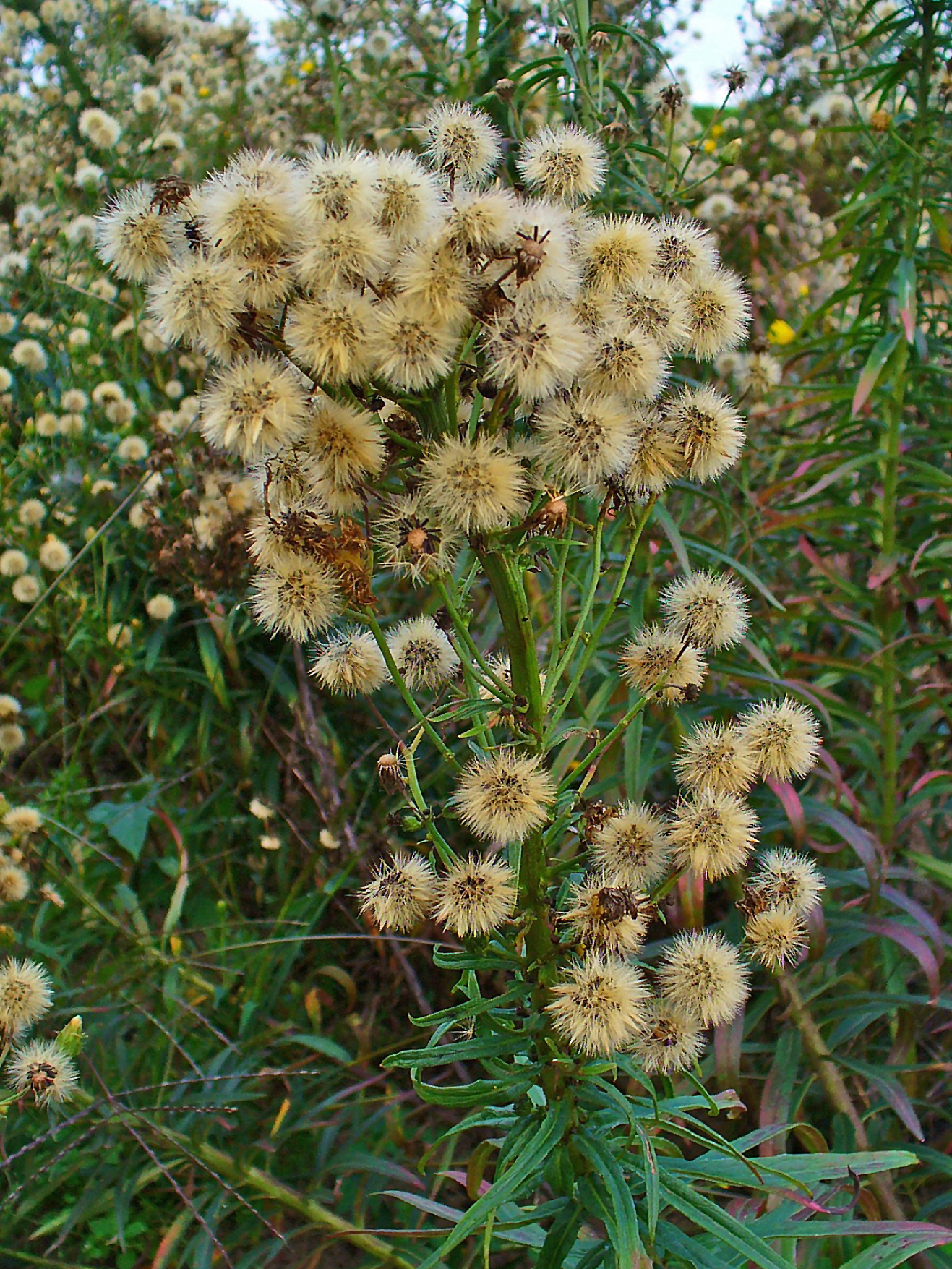 Hieracium umbellatum, Asteraceae, Narrowleaf Hawkweed, infrutescences. The plant is used in homeopathy as remedy: Hieracium umbellatum (Hier-u.)